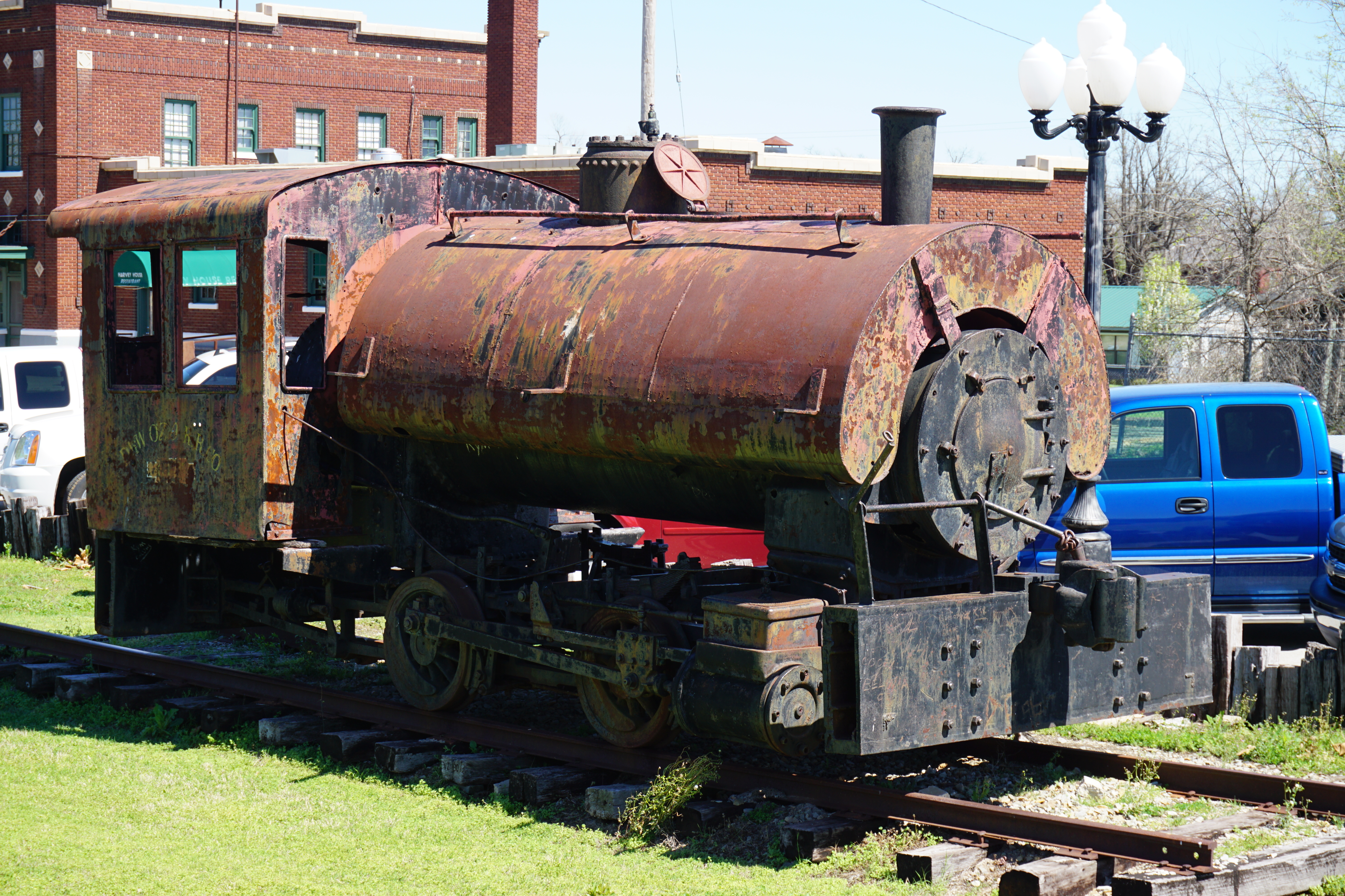 DkW OZA Davenport 0-4-0T No. 1907 at the Frisco Depot Museum in Hugo, Oklahoma (United States).